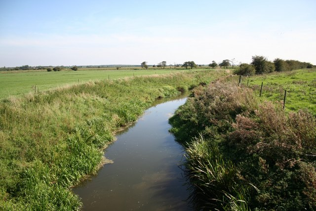 Barlings Eau looking downstream. View towards Stainfield from the footbridge by Barlings Abbey ruins